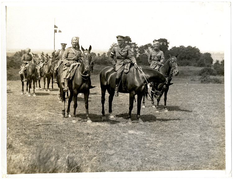 Gen. Rimington, Sir Partab Singh, & the Rajah of Rutlam riding in France [Linghem].